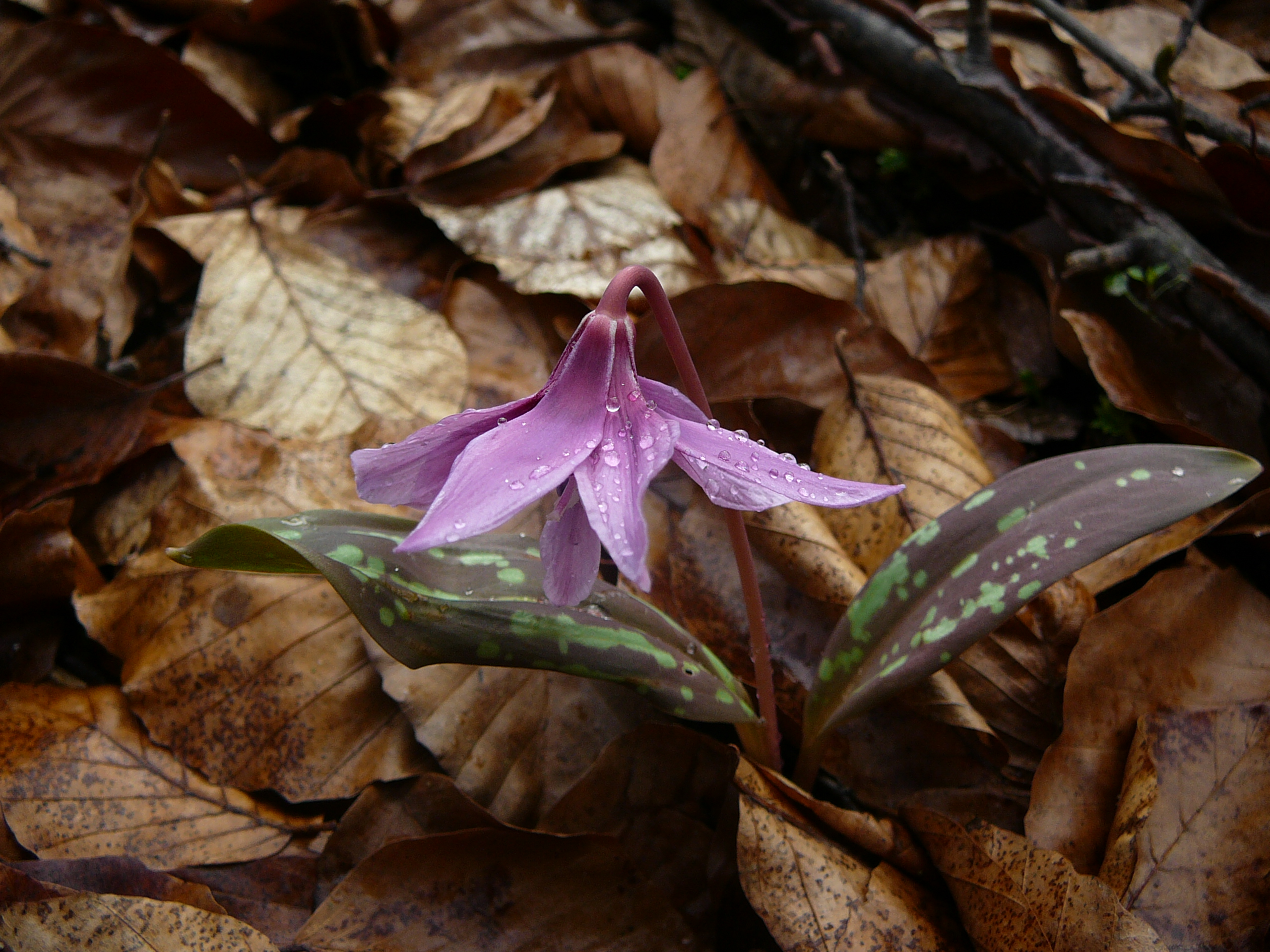 Erythronium dens-canis on Medník hill in Central Bohemia, the Czech Republic.